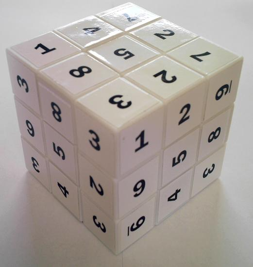 A Sudoku Cube. Then the puzzle is done, all 6 surfaces contain the numbers from 1 to 9